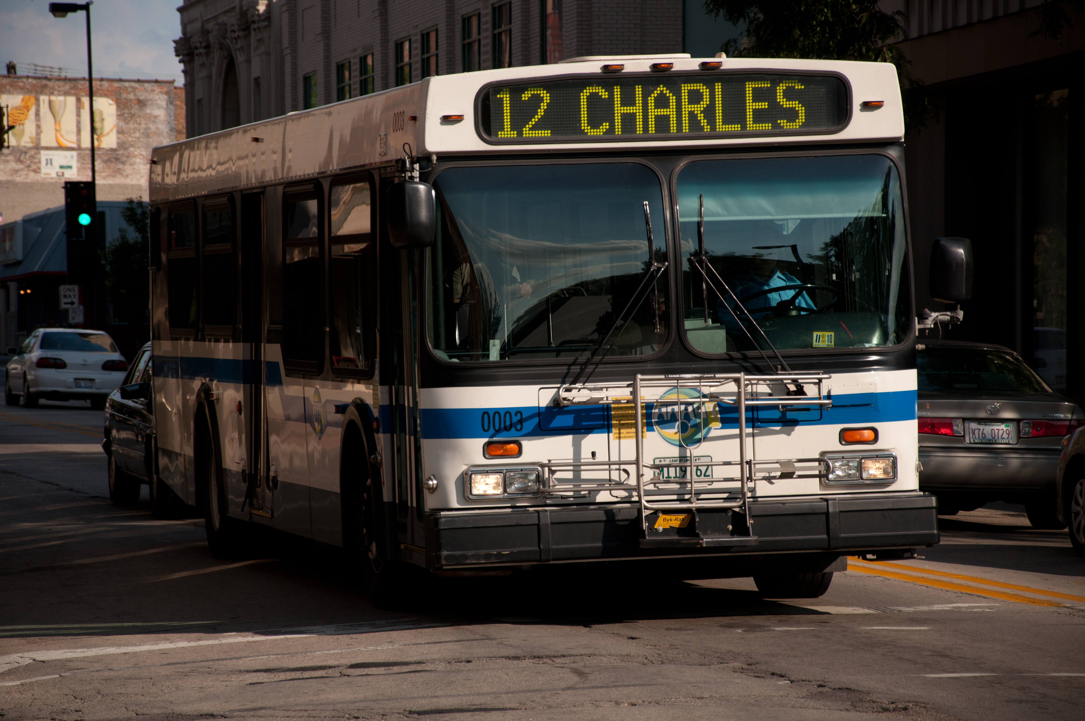 A front view of bus #0003 in downtown Rockford, Illinois. Bus is a 2000 New Flyer D35LF operated by the Rockford Mass Transit District.